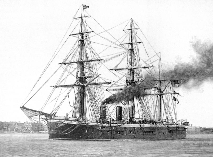 Illustration of British ironclad battleship HMS Sultan.